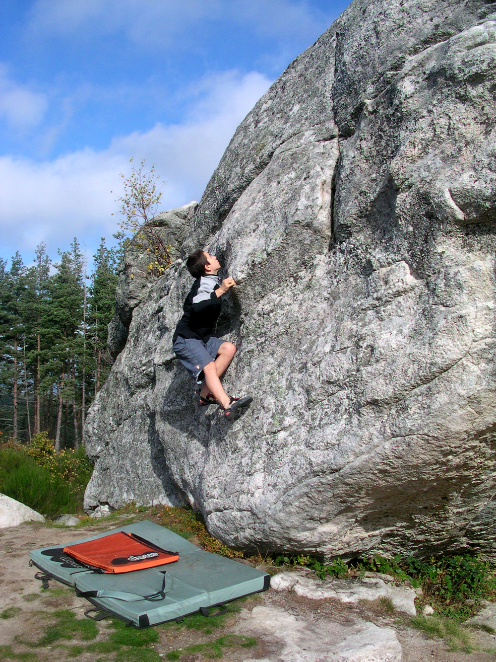 Bouldering (rock climbing) : the crash pad (Saint Just, departement of Cantal, France) Photographie/picture prise/taken par/by Romary Octobre 2005